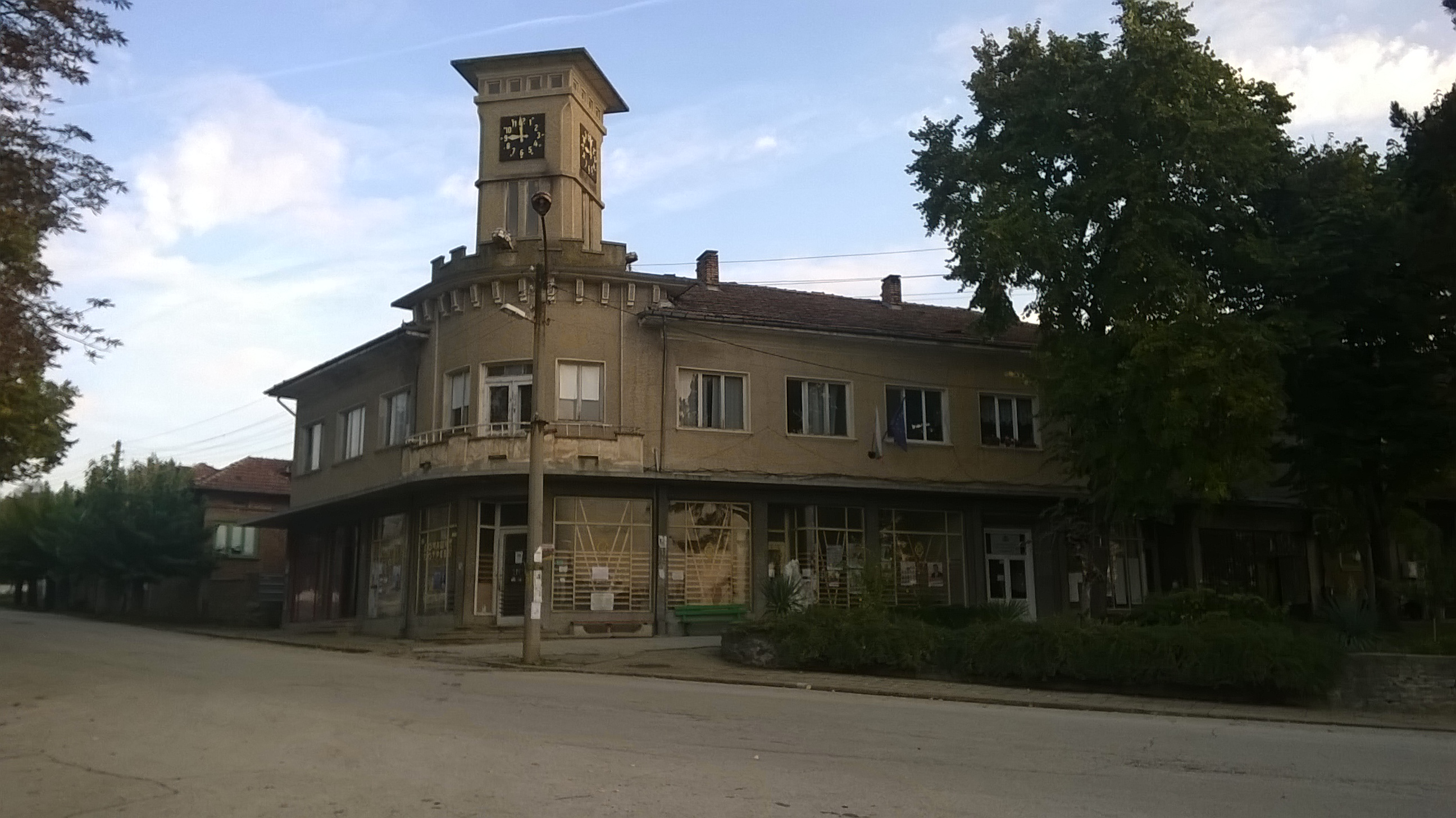 Photo taken 2015